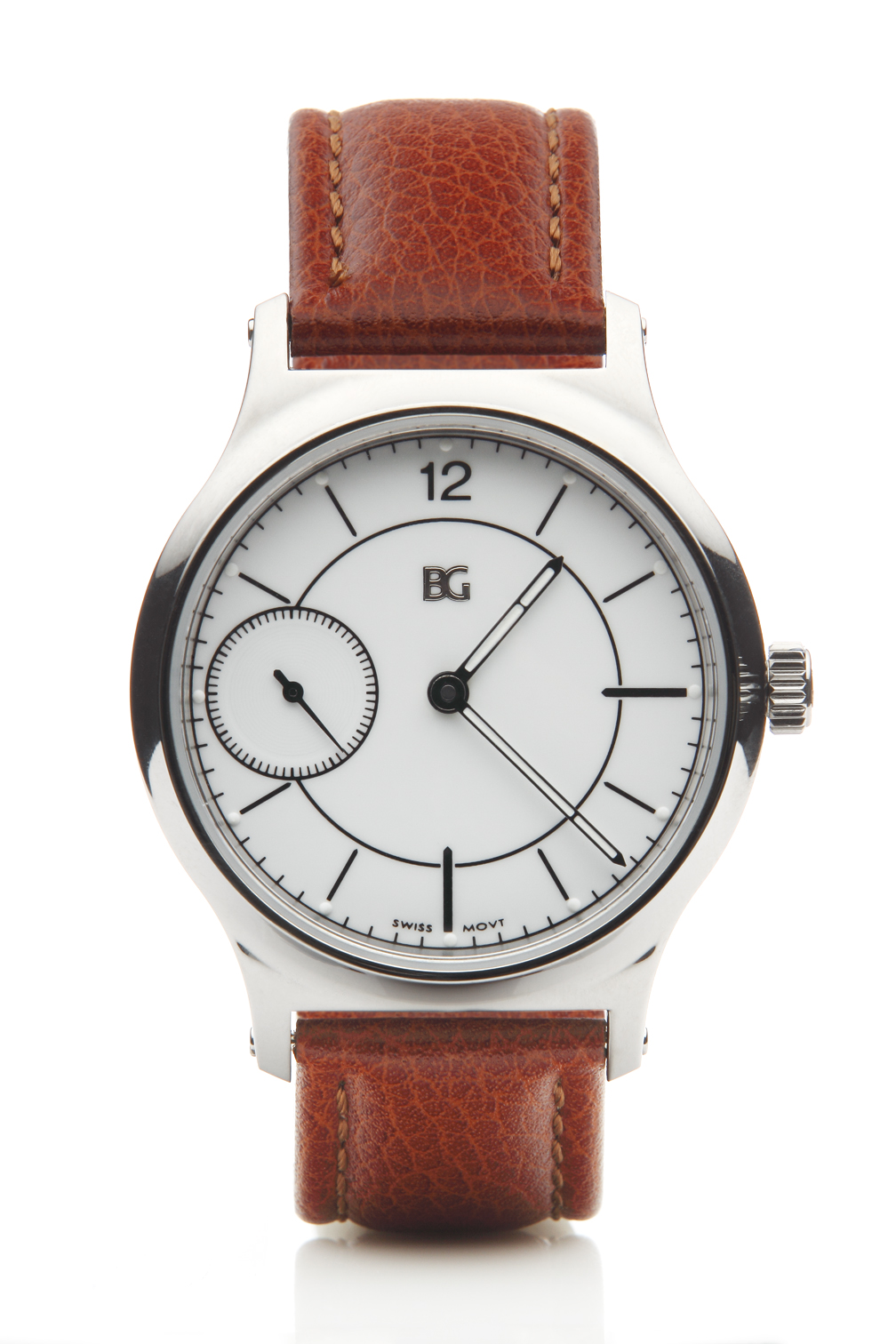 Barrington Griffiths Watch Company. Modern Classic Watch.